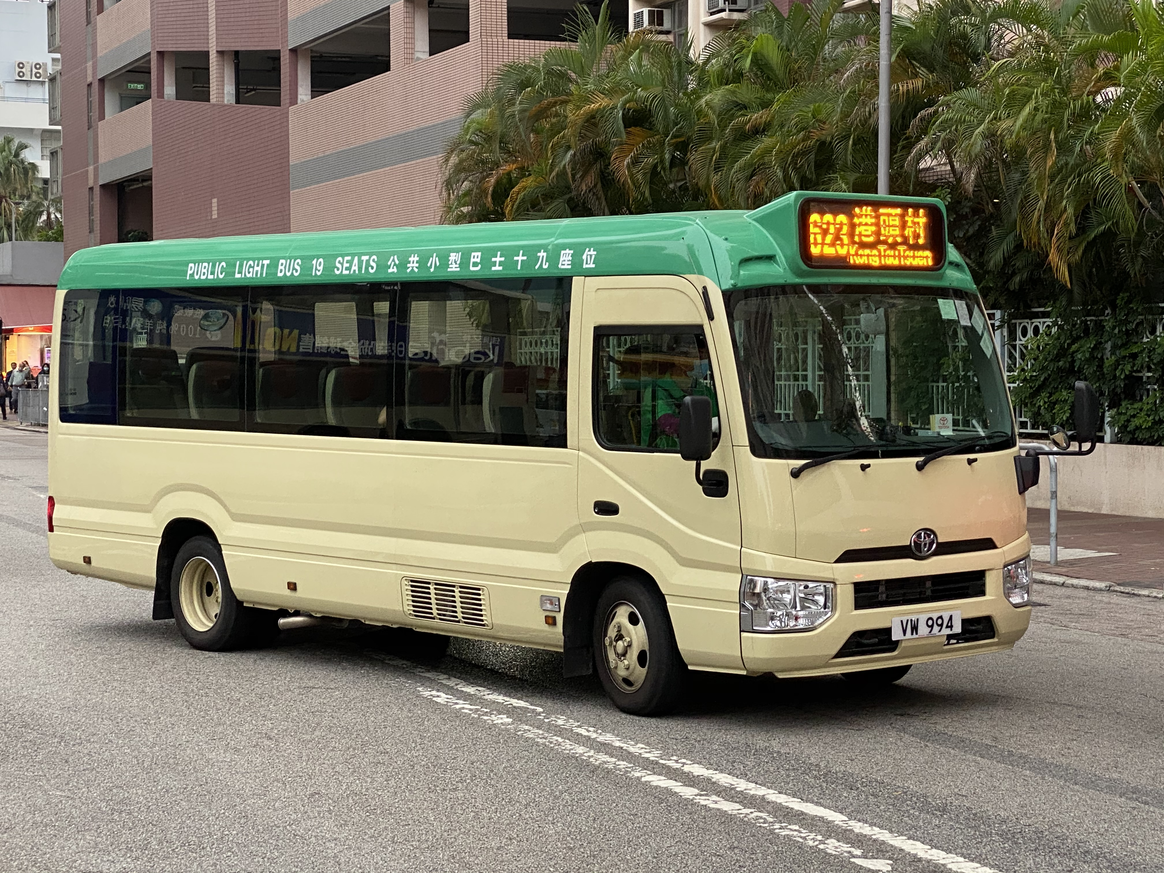 中文（香港）: This photo is taken in Yuen Long.